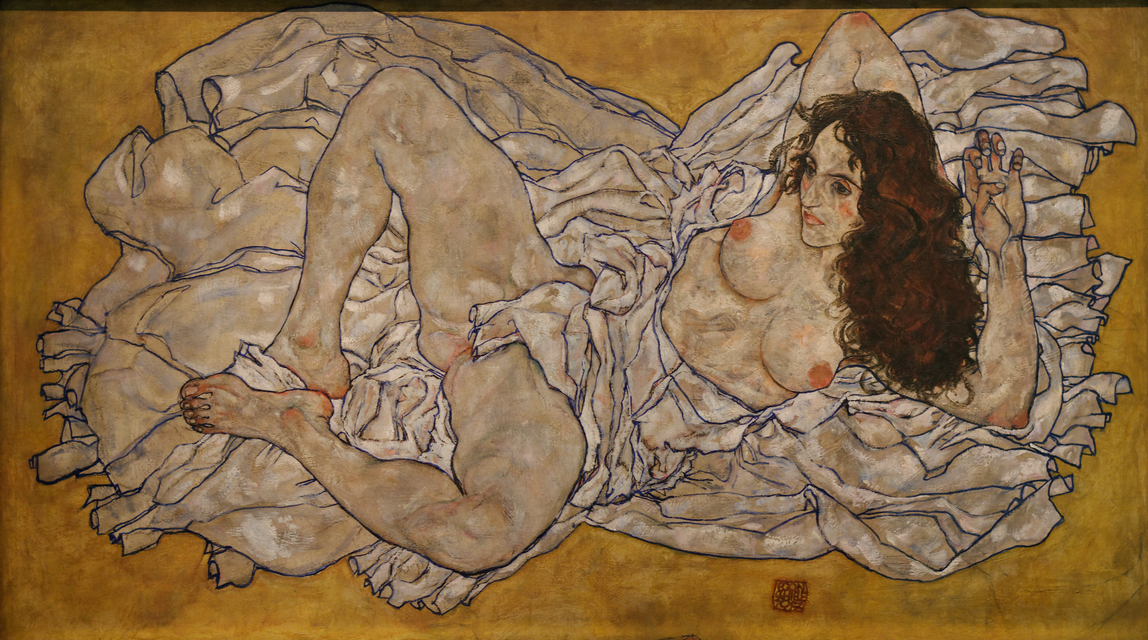 Egon Schiele, 1917. Oil on canvas. Leopold Museum, Wien. Inv.Nr 626